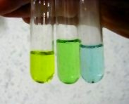 Copper(II) chloride at various stages of equilibrium with hydrochloric acid.